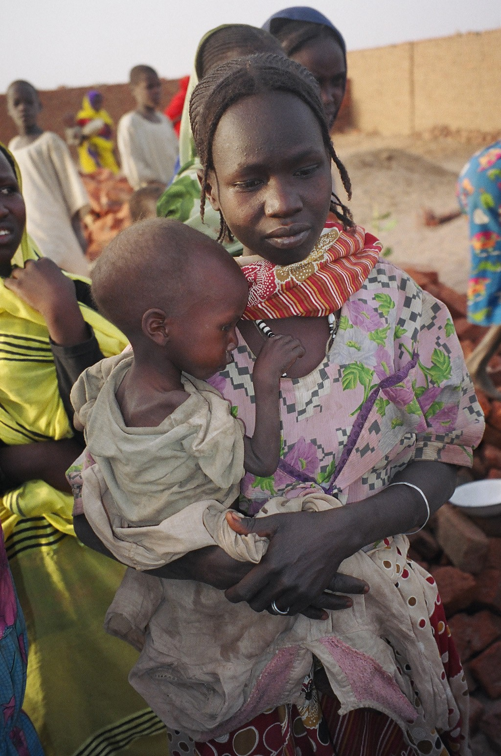 Caption:Kebkabiya IDP mother and 27 month old child: At a camp for IDPs in Kebkabiya, North Darfur, a mother holds her malnourished child.